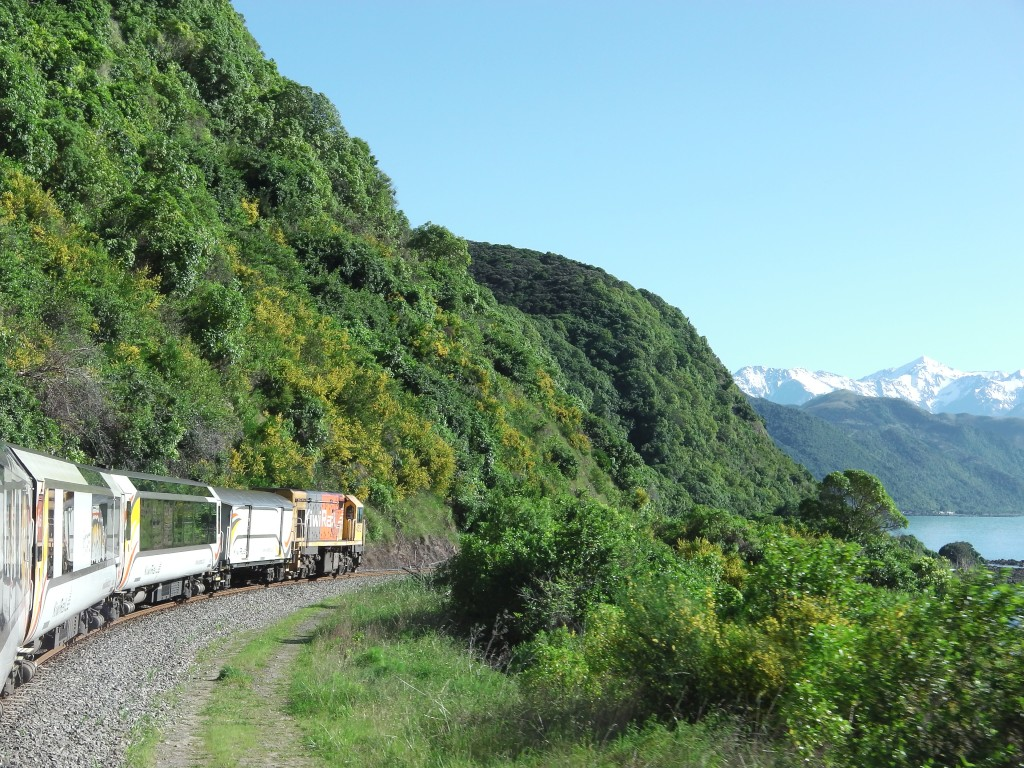 The Coastal Pacific train alongside the Kaikoura Coast